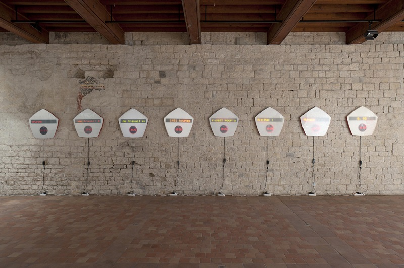 exposition view